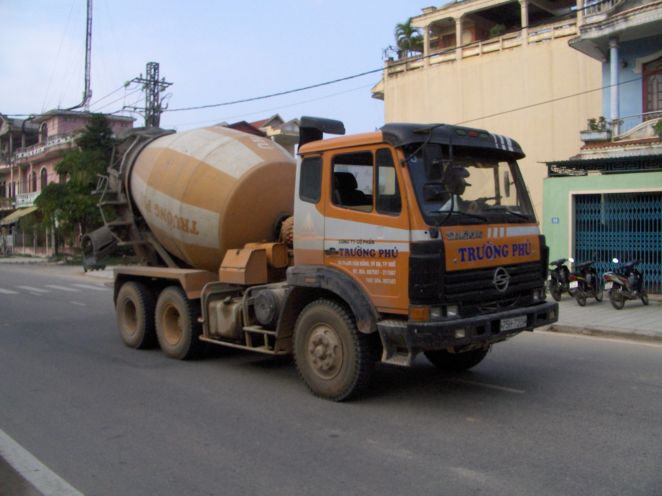 A SsangYong cement mixer in Hue, Vietnam.